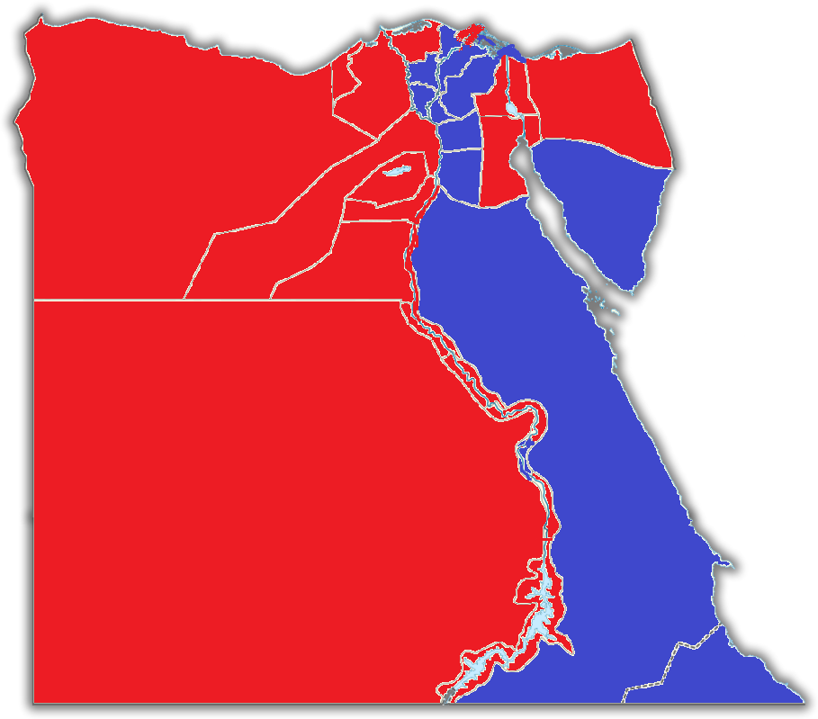 A map of Egypt ,showing the different governorates colored according to the presidential candidate who won the majority of votes.